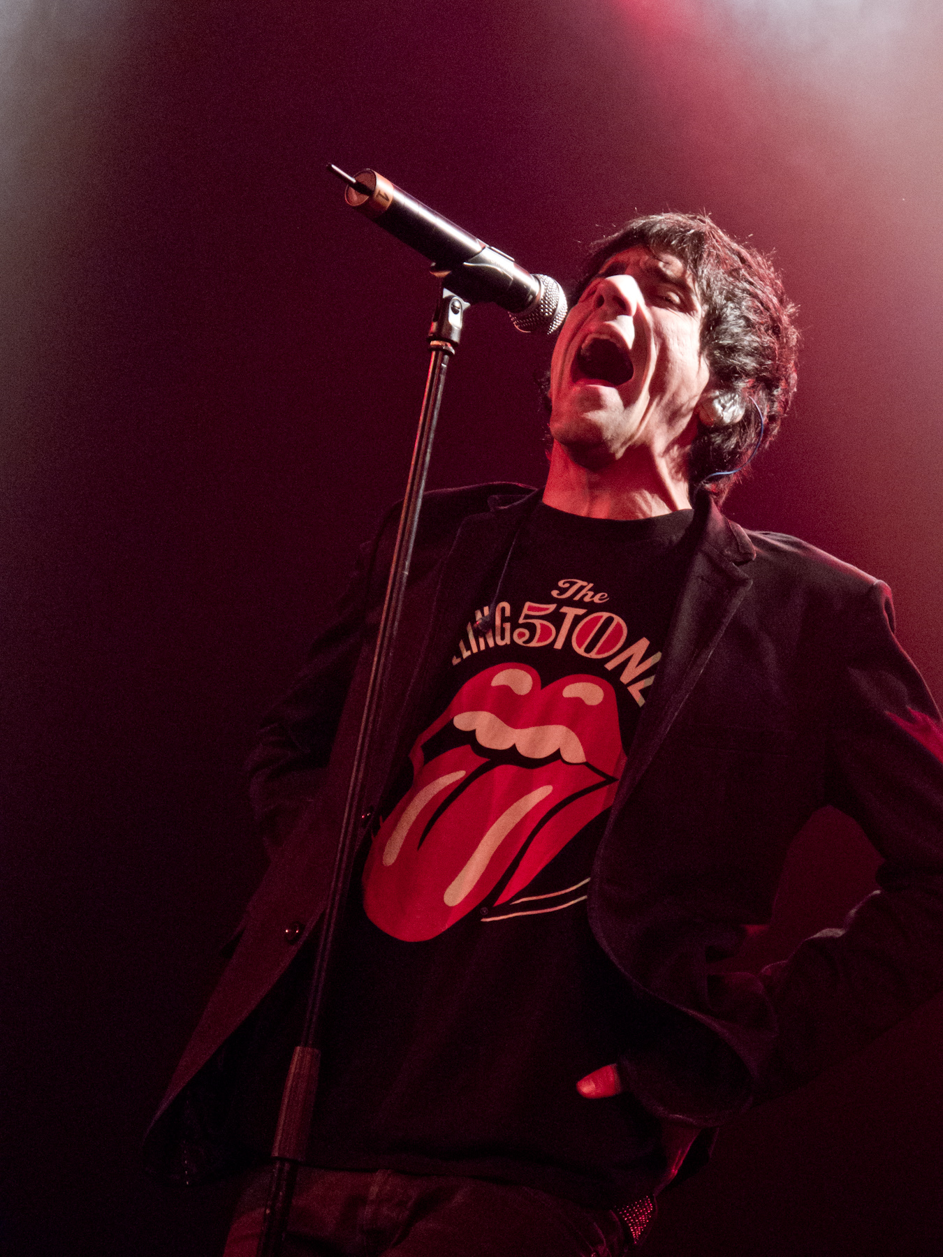 Guasones live in Madrid in 2012.